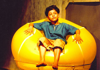 Image of Riddhi Sen from the Bengali theatre Dakghar, directed by Koushik Sen.